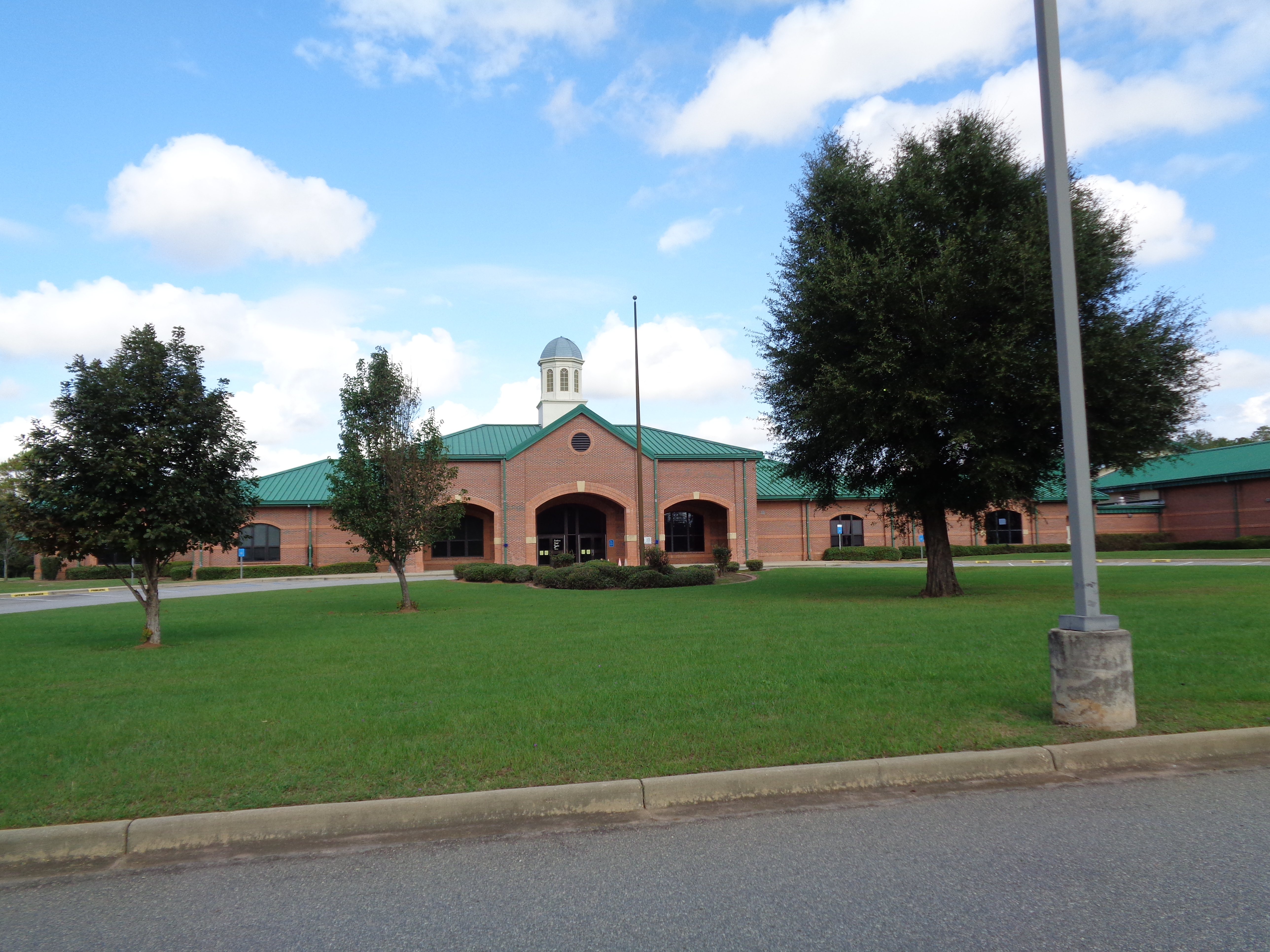 Alice Coachman Elementary School, Albany, Dougherty County, Georgia